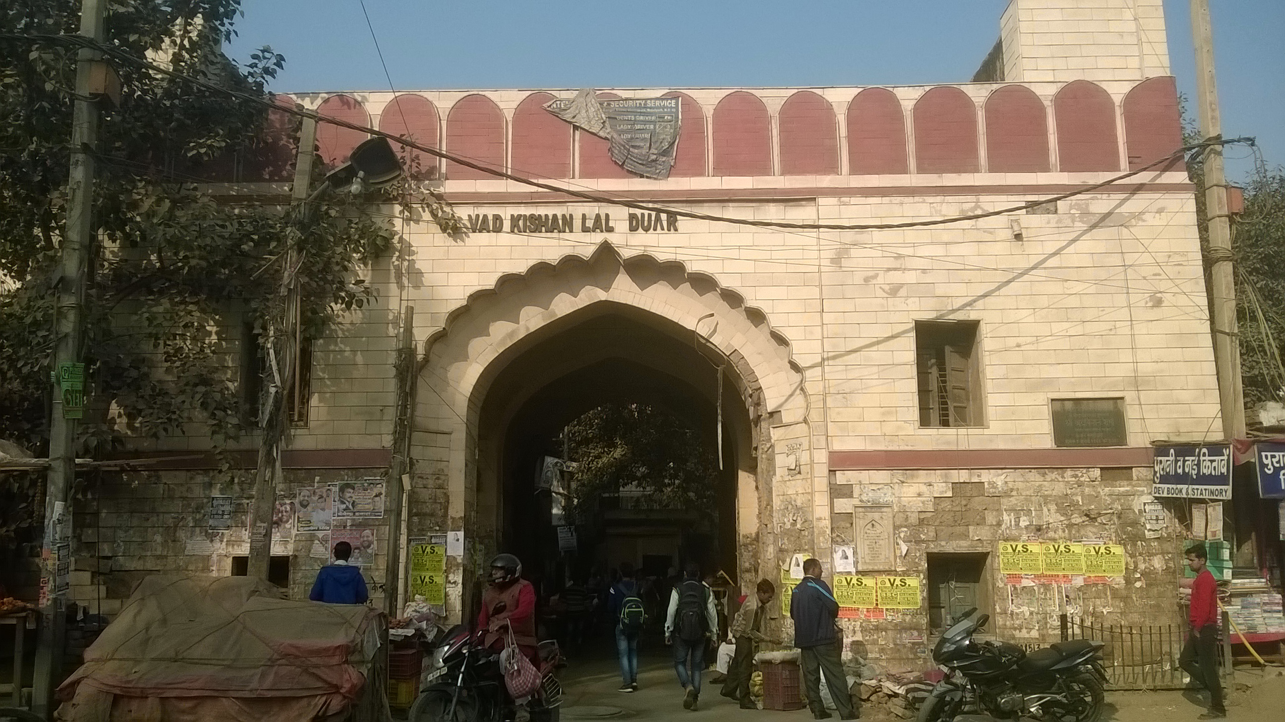 Vad Kishan Lal Duar, also called "Delhi Gate of Najafgarh" is a Historial Gate in Najafgarh. It currently marks the Entry point of the Najafgarh Market.